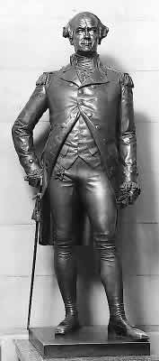 Photograph of statue of George Clinton (politician)